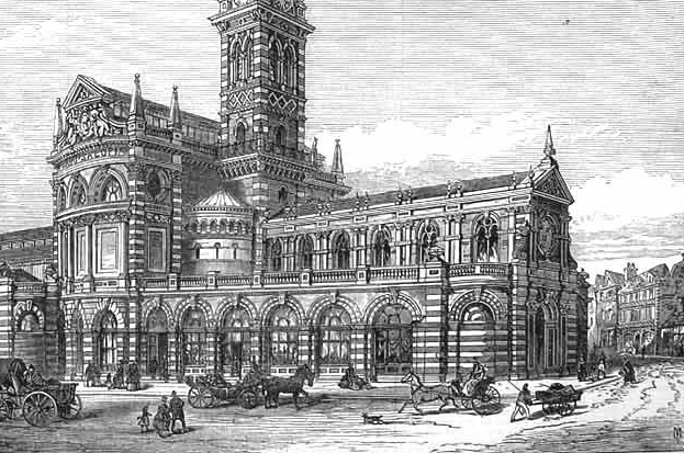 Shrewsbury Corn Exchange and Market Hall 1869